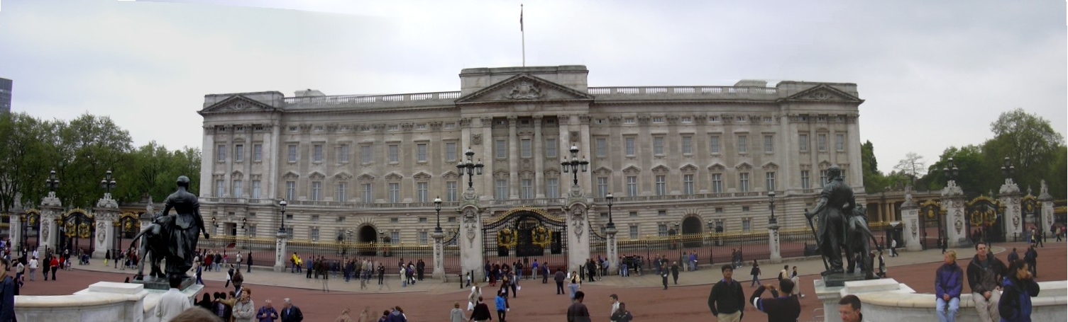 Description: A panoramic view of the Buckingham Palace. Source: self-made